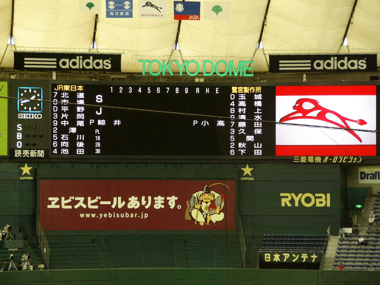 The Intercity Baseball Tournament 2007 Tokyo Dome